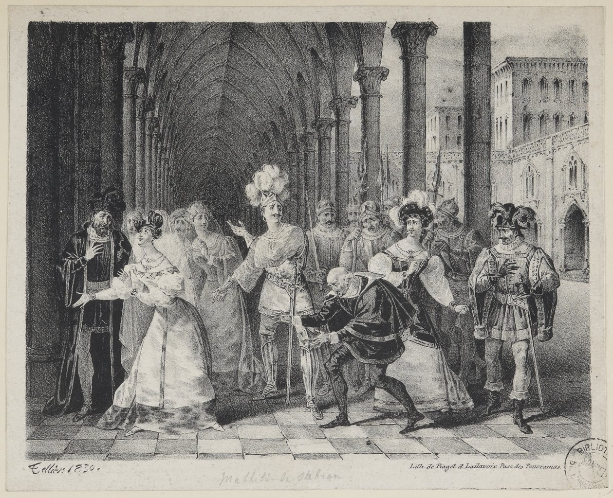 Rossini - Matilde di Shabran - Théâtre de l'Opéra-Comique, 15-10-1829 - Scene